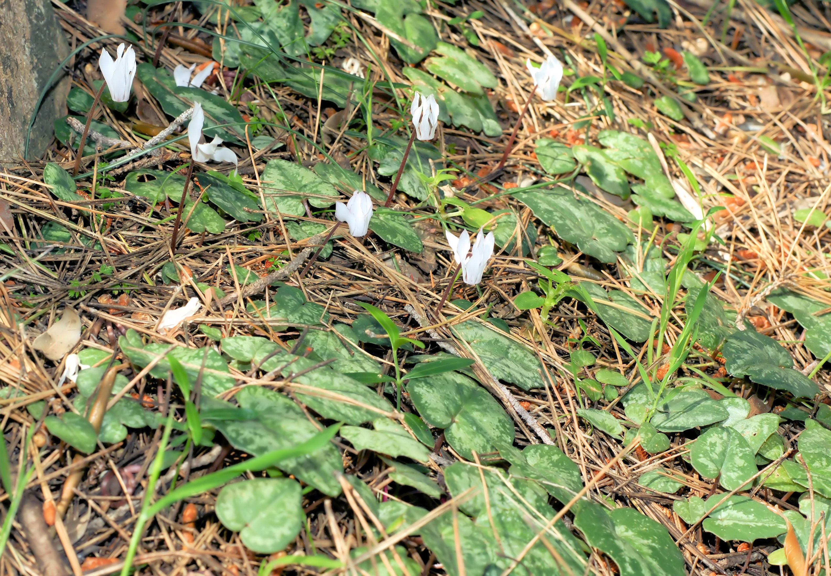 Cyclamen balearicum